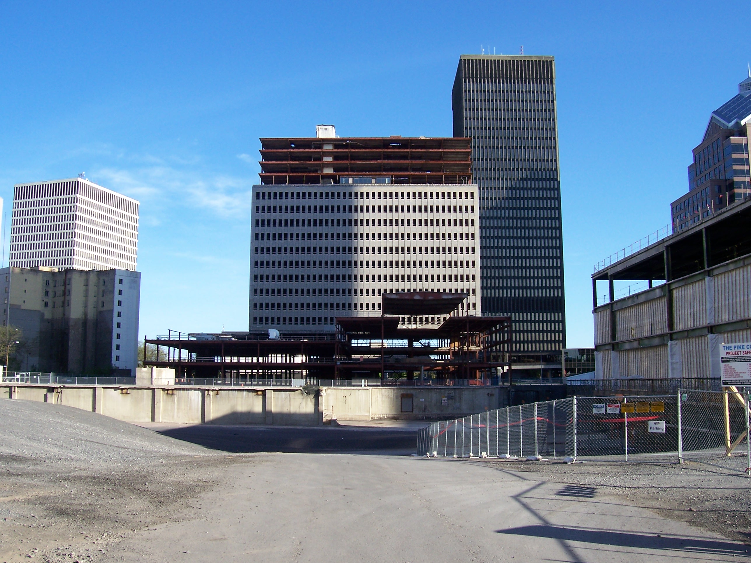 Remnants of Midtown Plaza (Rochester) as they appeared in 2012